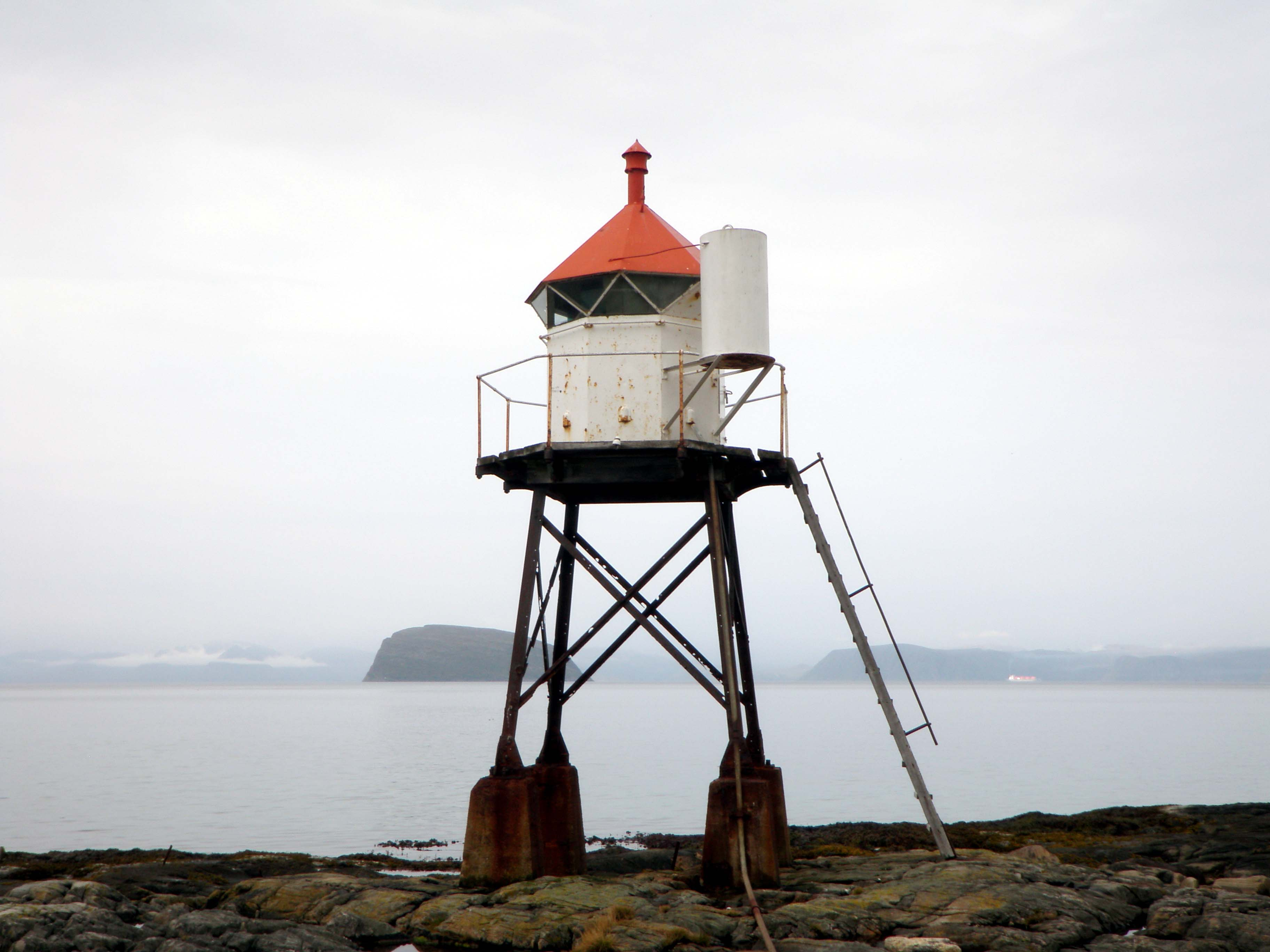 The light beacon that stands near the former location of Fuglenes Lighthouse in Hammerfest, Finnmark, Norway. Fuglenes Lighthouse was replaced by a light beacon in 1911.